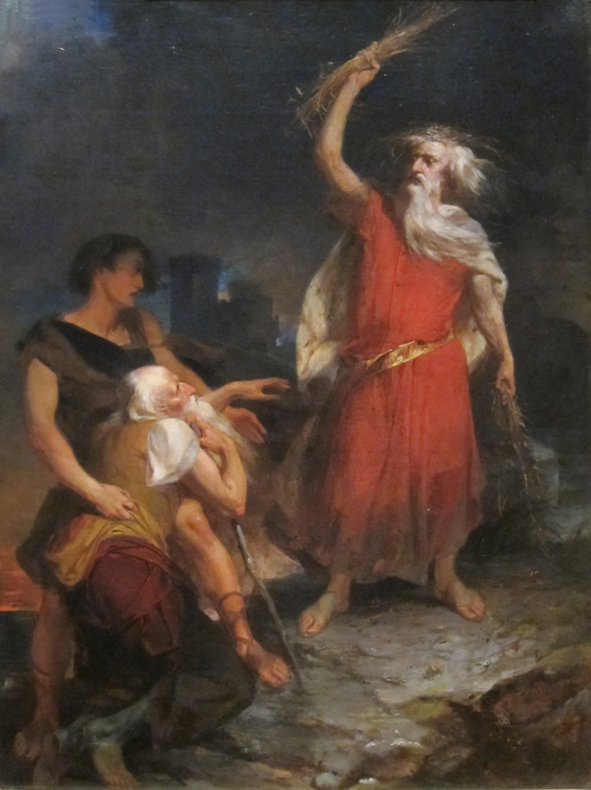 King Lear (Act 4, Scene 6)